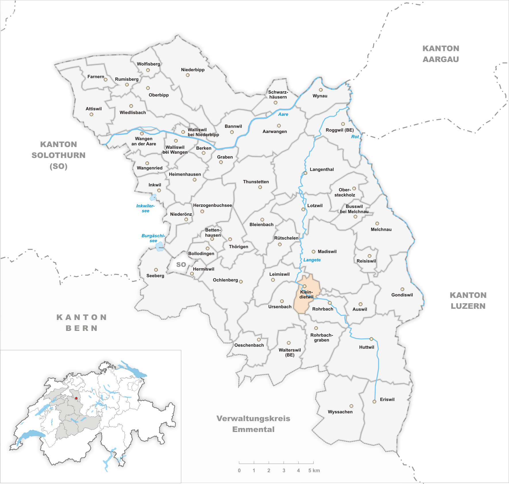 Municipality Kleindietwil